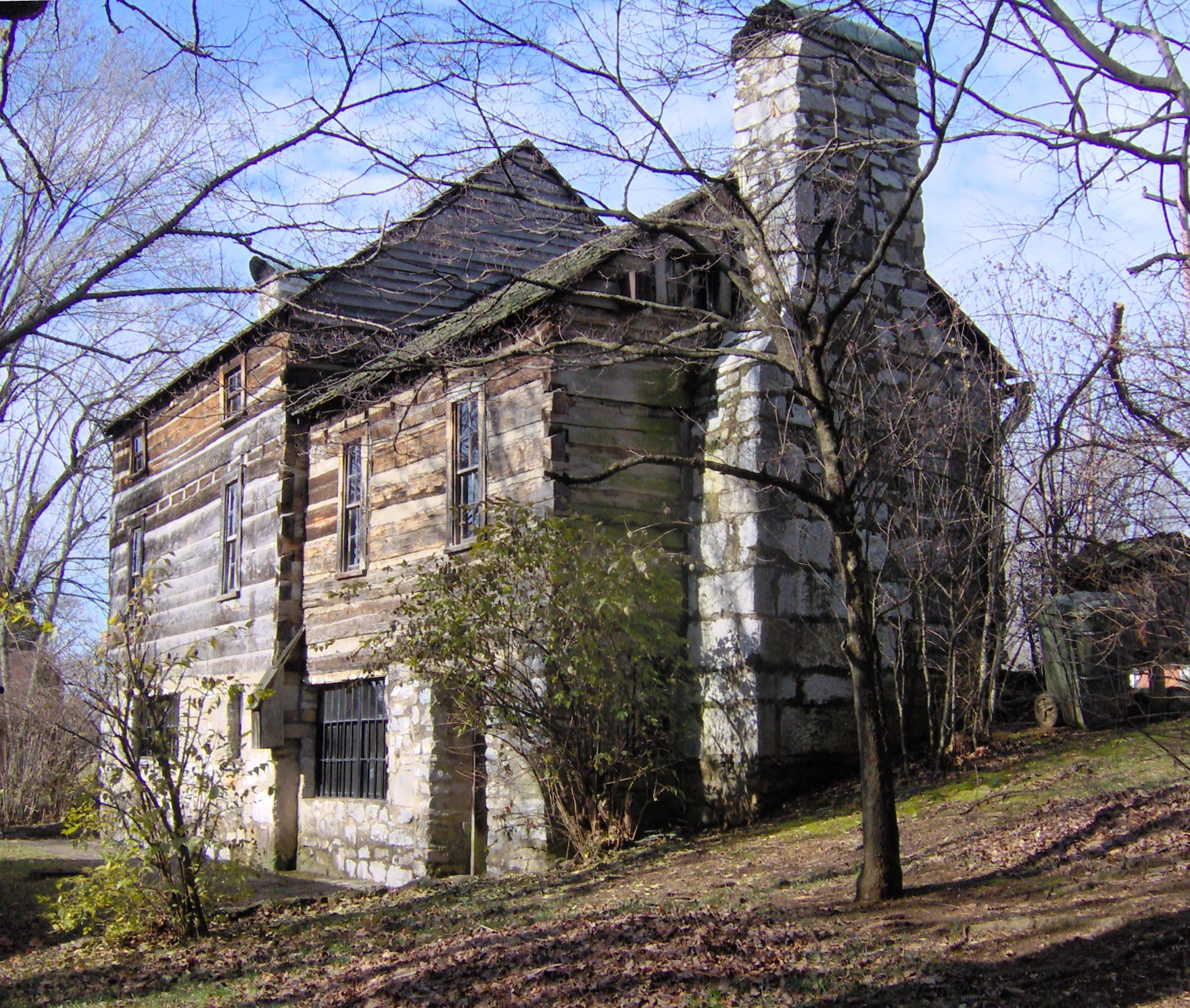 Replica of John Crockett's tavern in Morristown, Tennessee, USA. John Crockett was the father of legendary frontiersman Davy Crockett. The tavern is home to the Crockett Tavern Museum.